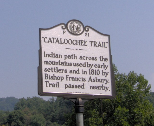 Cataloochee Trail historical marker, located just of Interstate 40 near the junction of Cove Creek Road and Jonathan Creek Road near Maggie Valley, North Carolina.